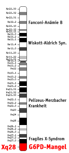 Human X chromosome in cytogenetic view (G-banding) with annotations added. Focus on G6PD deficiency (marked red).